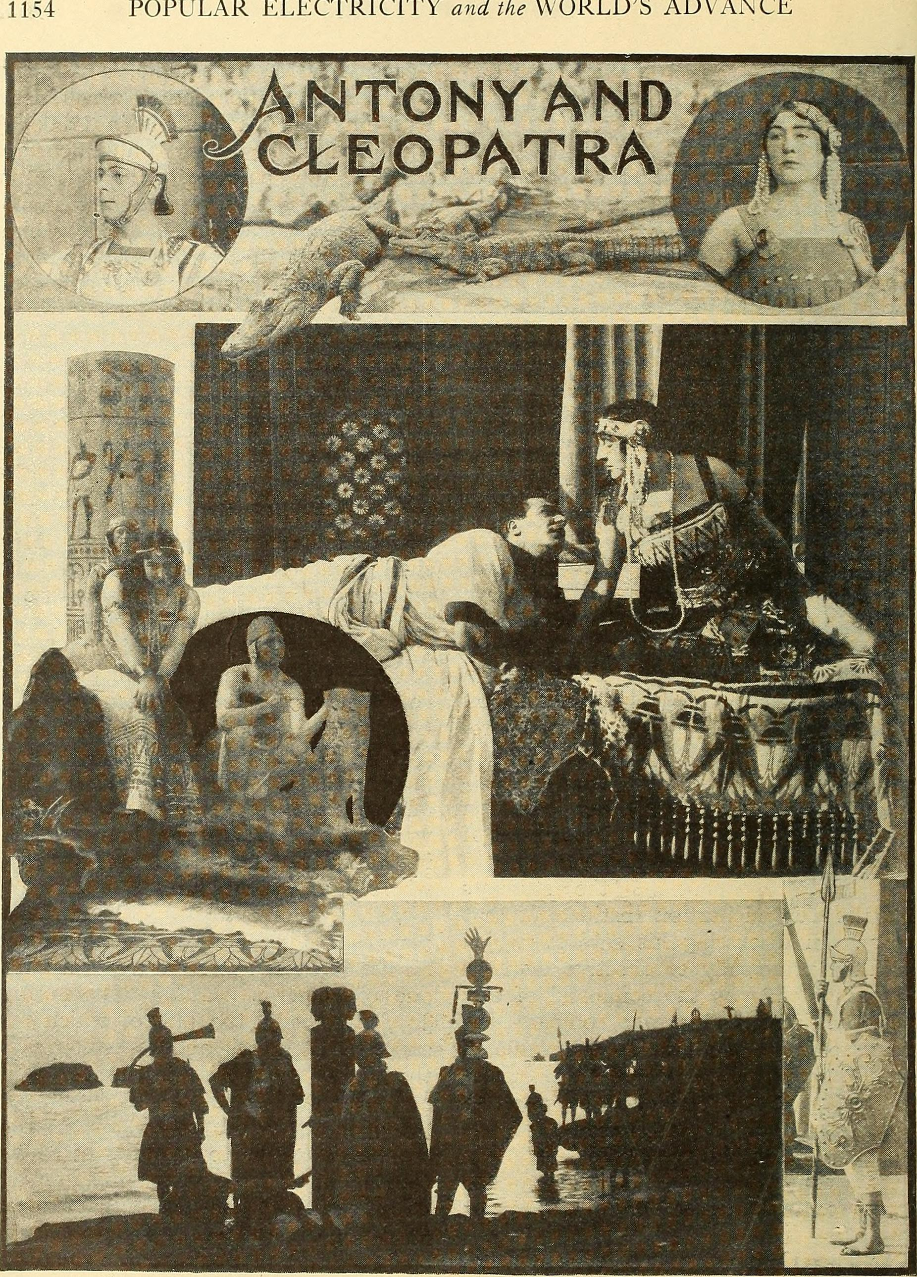 Scenes from Antony and Cleopatra (1913) (Italian film Marcantonio e Cleopatra (1913)) Title: Popular electricity magazine in plain English Year: 1912 (1910s) Authors: Subjects: Electricity Publisher: Chicago, Ill. : Popular Electricity Pub. Co. Text Appearing Before Image: shelves for sale. The Elgin National Watch Company, shows by motion pictures the various processes of manufacture of Elgin watches. These films are shown in moving picture theaters in the various towns where Elgin watches are sold. The Commonwealth Edison Company has had several of these films made for use at electrical shows, and the latest one of these is entitled Gloom and Joy, a comedy, the plot of which was suggested by myself, and worked out with the help of the motion picture company and their staff of actors. This film was shown in our White City exhibit during the past summer to upwards of 85,000 people. It all looks very simple on the screen, but if you could have been present in the studio when the picture was being made, you would realize the enormous detail necessary to be gone through with to produce the finished picture,and all for advertising, to lot the public know of the comfort to be derived from the use of things electrical in the home. POPULAR ELECTRICITY and M^ WORLDS ADVANCE Text Appearing After Image: The illustrations on this page give, after a fashion, a meager idea of the stupendous character of the latest Kleine-Cines production, Antony and Cleopatra, which has recently been imported from Italy by George Kleine, who gave us Quo Vadis? and The Last Days of Pompeii, and which is soon to be shown in the larger theaters of the country. Eight full reels tell the fascinating story of the queen of Egypt who MOTION PICTURES 1155